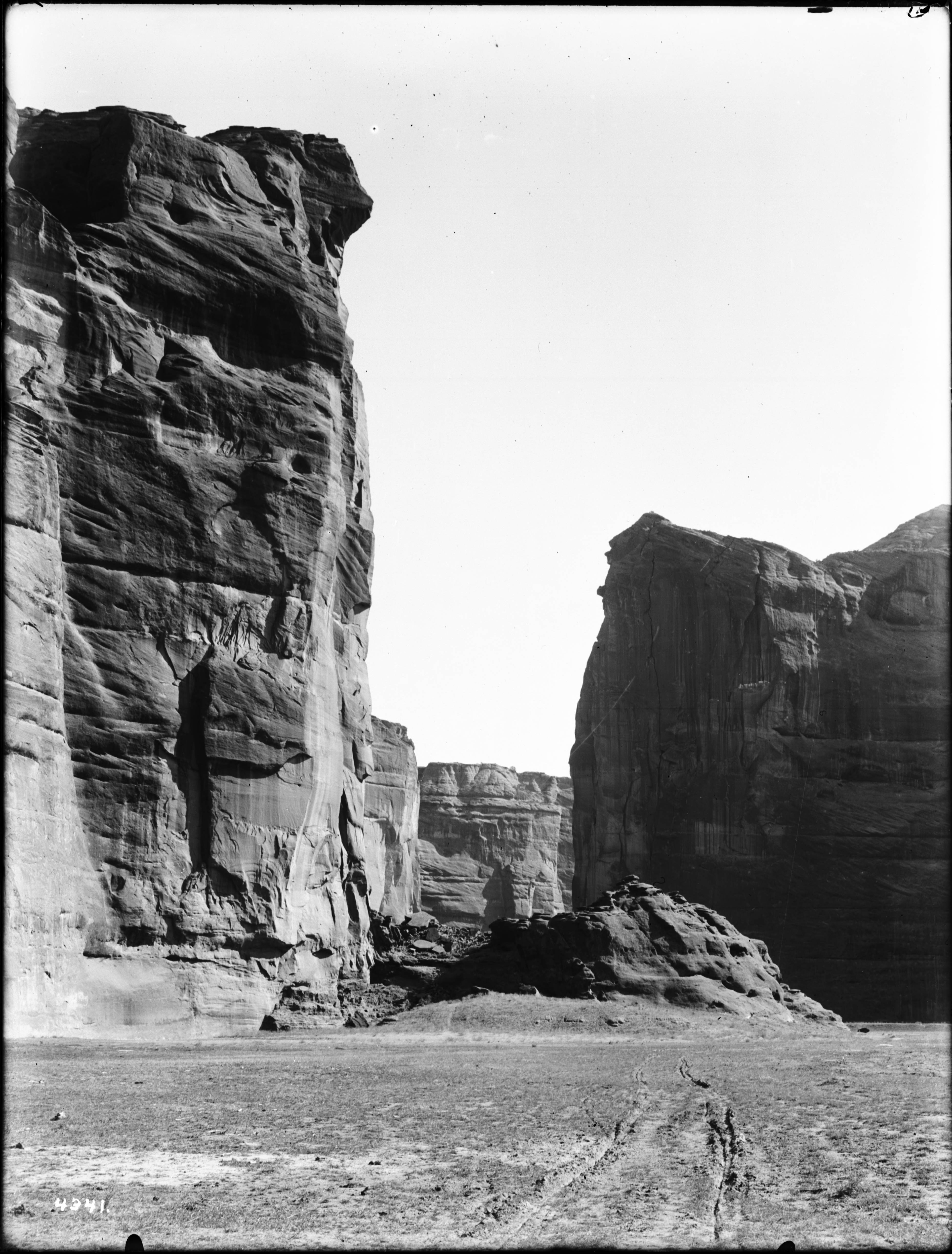 Opening to Canyon de Chelly, Navajo Indian Reservation, Arizona, ca.1900 Photograph of the opening to Canyon de Chelly, Navajo Indian Reservation, Arizona, ca.1900. Tall vertical cliffs begin abruptly at the canyon entrance. Wagon tracks are visible in the flat grassy plain in the foreground. Call number: CHS-4341 Photographer: Pierce, C.C. (Charles C.), 1861-1946 Filename: CHS-4341 Coverage date: circa 1900 Part of collection: California Historical Society Collection, 1860-1960 Format: glass plate negatives Type: images Part of subcollection: Title Insurance and Trust, and C.C. Pierce Photography Collection, 1860-1960 Repository name: USC Libraries Special Collections Accession number: 4341 Microfiche number: 1-165- Archival file: chs_Volume98/CHS-4341.tiff Repository address: Doheny Memorial Library, Los Angeles, CA 90089-0189 Geographic subject (country): USA Format (aacr2): 2 photographs : glass photonegative, photoprint, b&w ; 22 x 17 cm. Rights: Digitally reproduced by the USC Digital Library; From the California Historical Society Collection at the University of Southern California Subject (adlf): canyons Project: USC Repository Contributing entity: California Historical Society Date created: circa 1900 Publisher (of the digital version): University of Southern California. Libraries Format (aat): photographic prints; photographs Geographic subject (state): Arizona Legacy record ID: chs-m17081; USC-1-1-1-13506 Geographic subject: canyons: Canyon de Chelly Access conditions: Send requests to address or e-mail given. Phone (213) 821-2366; fax (213) 740-2343. Subject (file heading): Cliff Dwellers Subject (lcsh): Indians of North America; Cliffs Subject: Cliff-Dwellers